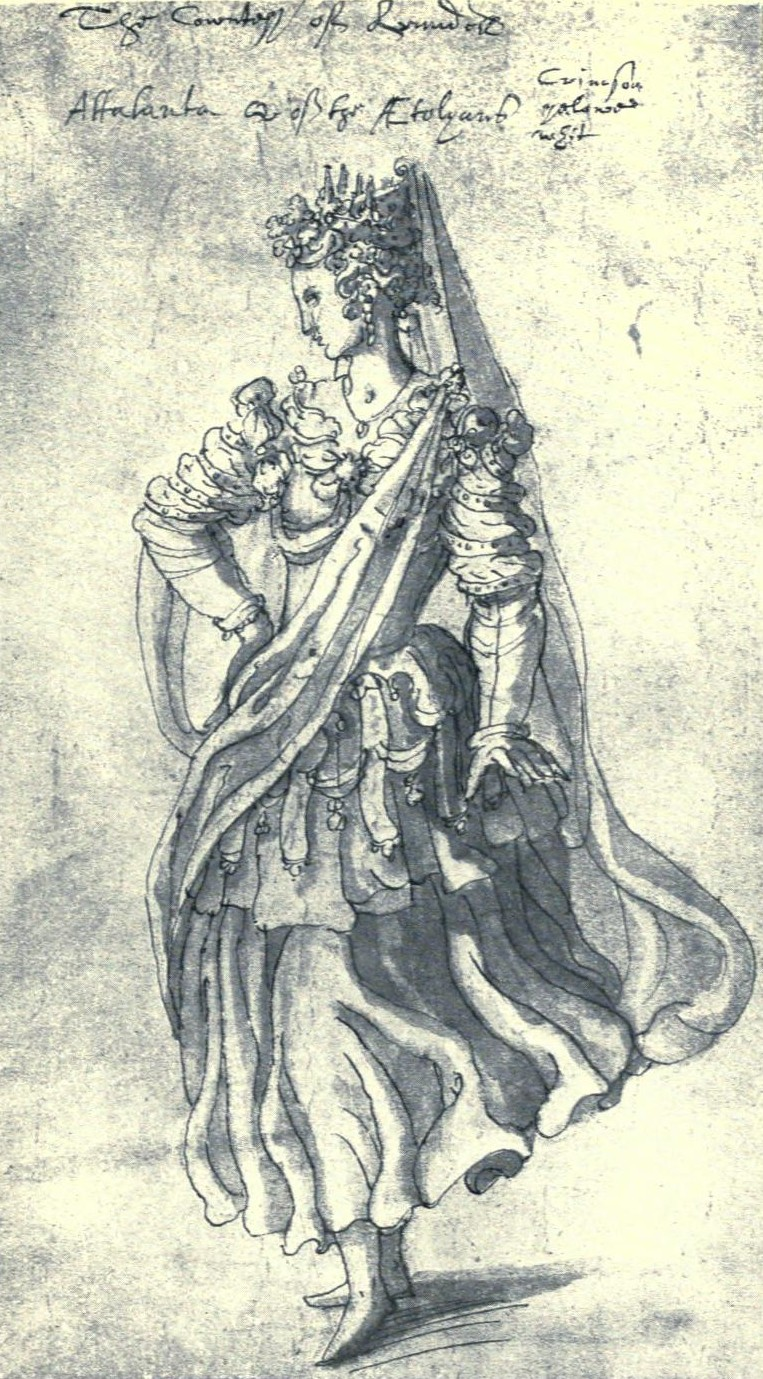 Costume design for Atalanta in The Masque of Queens